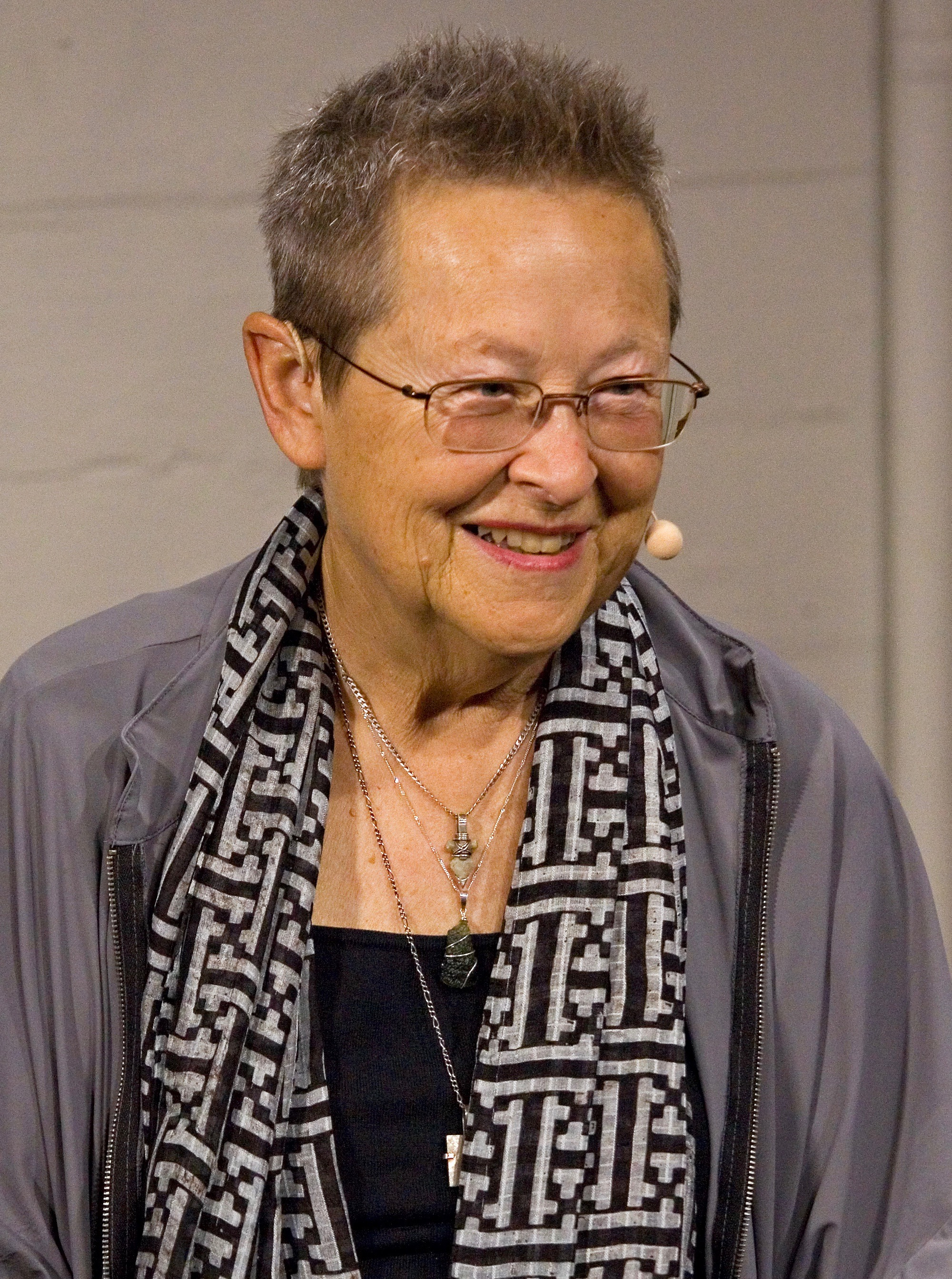 Adrienne Mayor at Long Now Interval, San Francisco CA, Nov 12, 2019